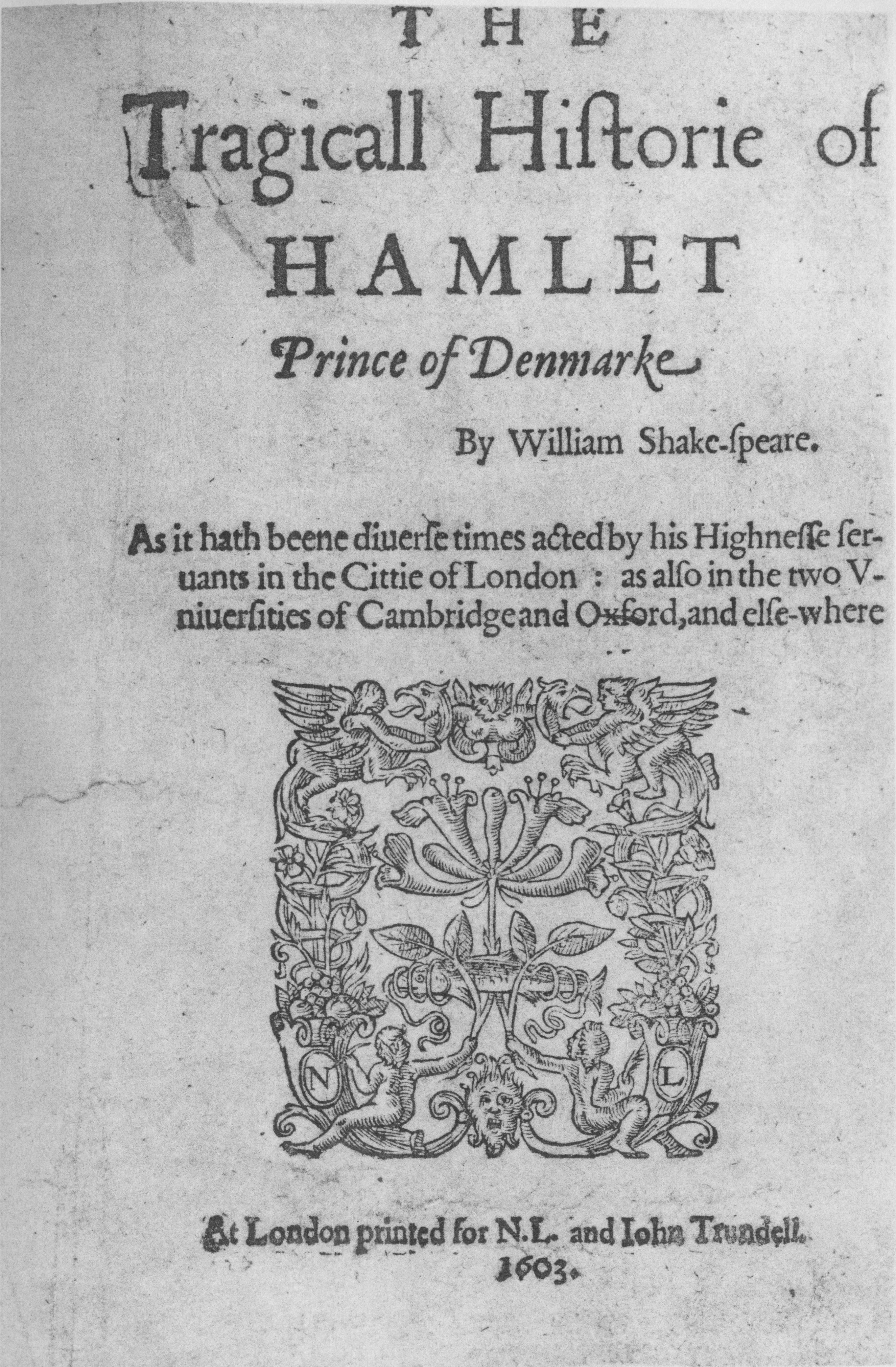 Frontispiece to the First Quarto (1603) of William Shakespeare's Hamlet